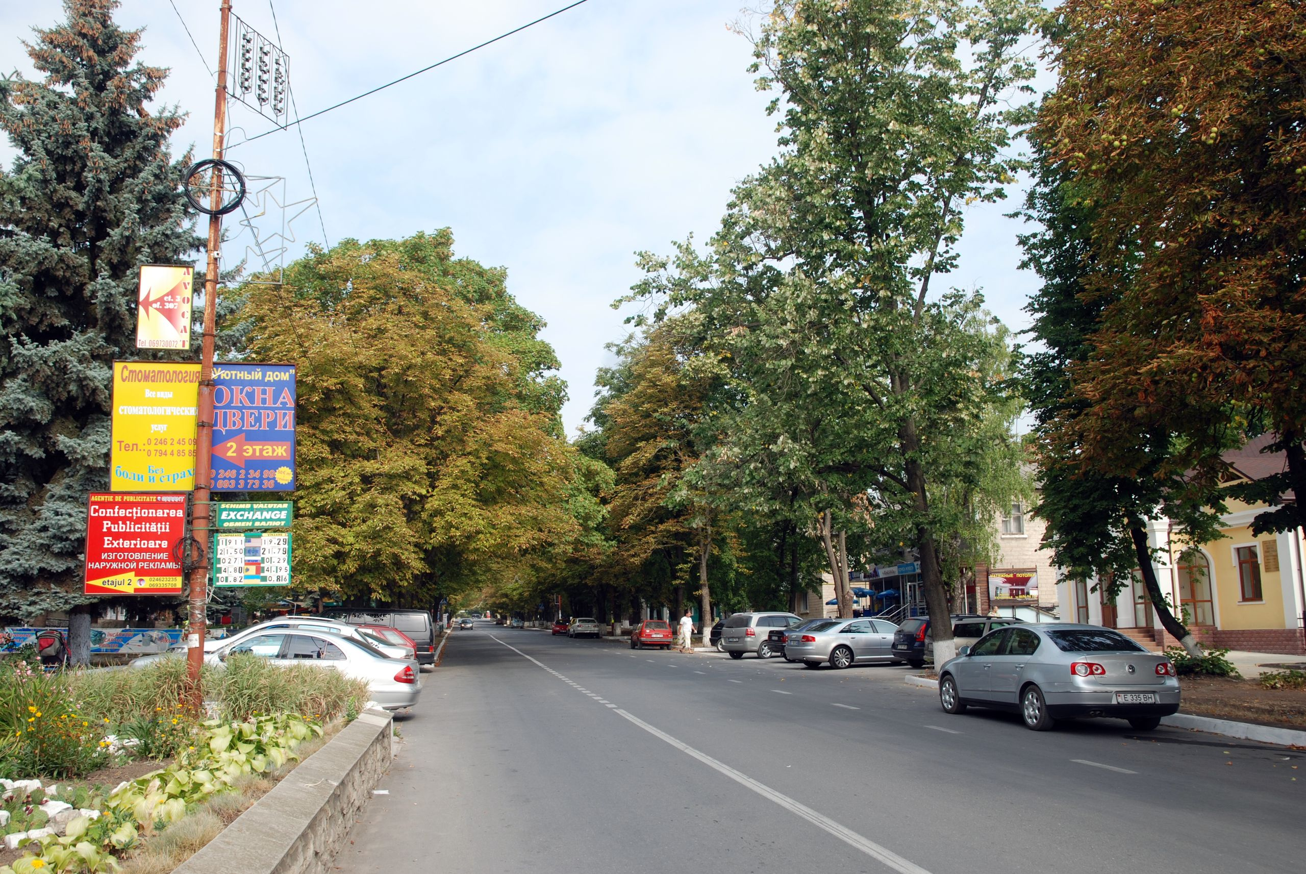 Edineț, main road